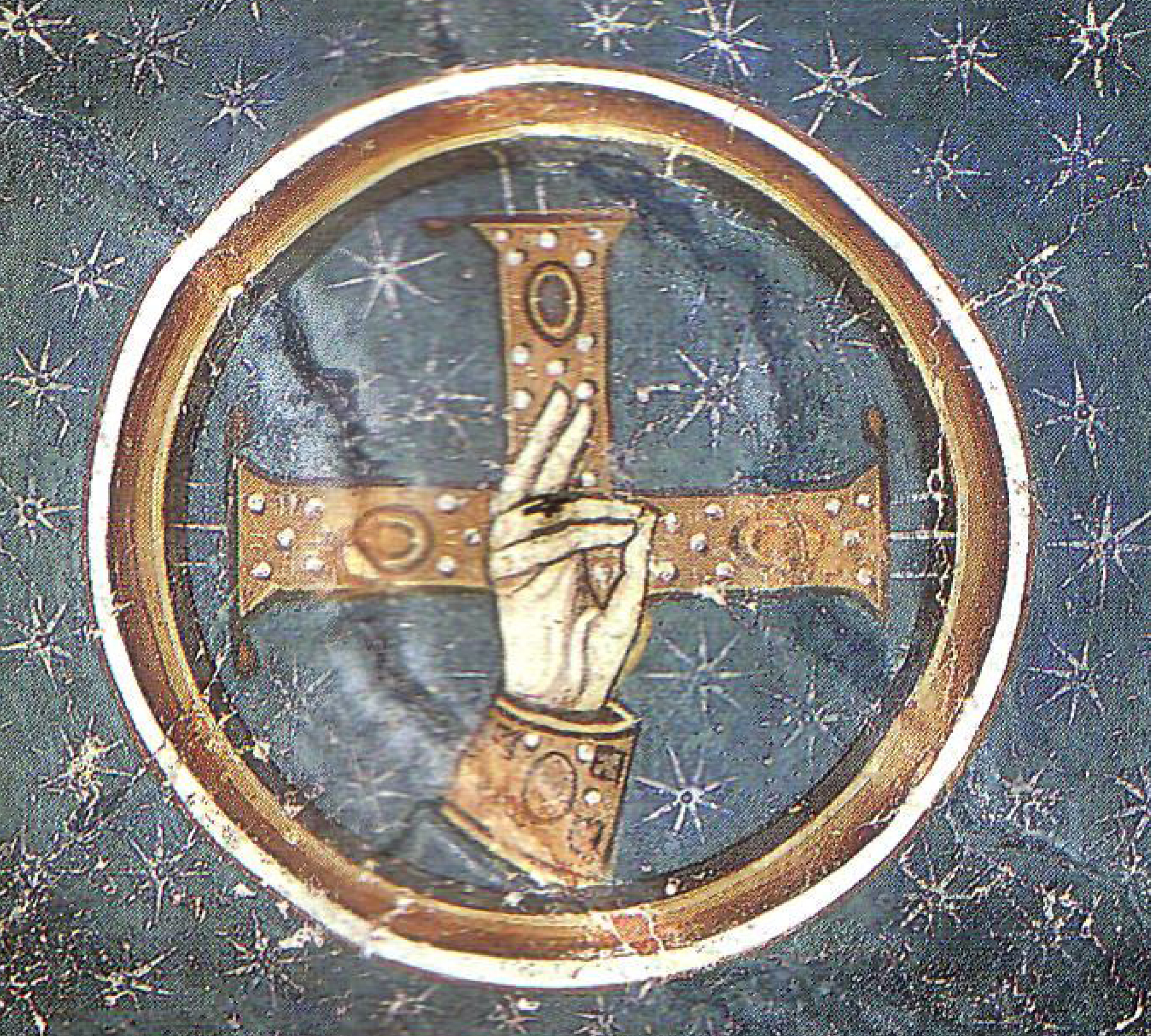 Hosios Loukas Monastery, Boeotia, Greece